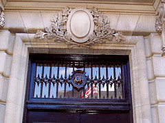 Goethe House in New York City